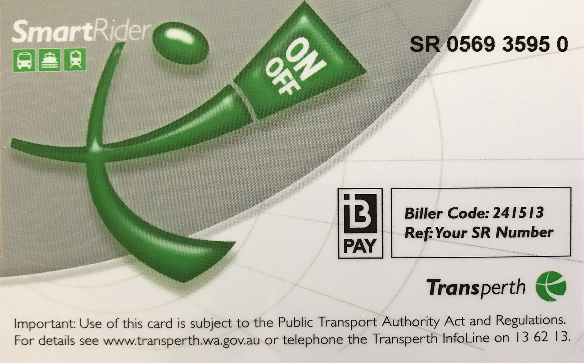 Transperth SmartRider Card. The serial number proves that this card belongs to the person, so if lost, it can be traced via Transperth website.